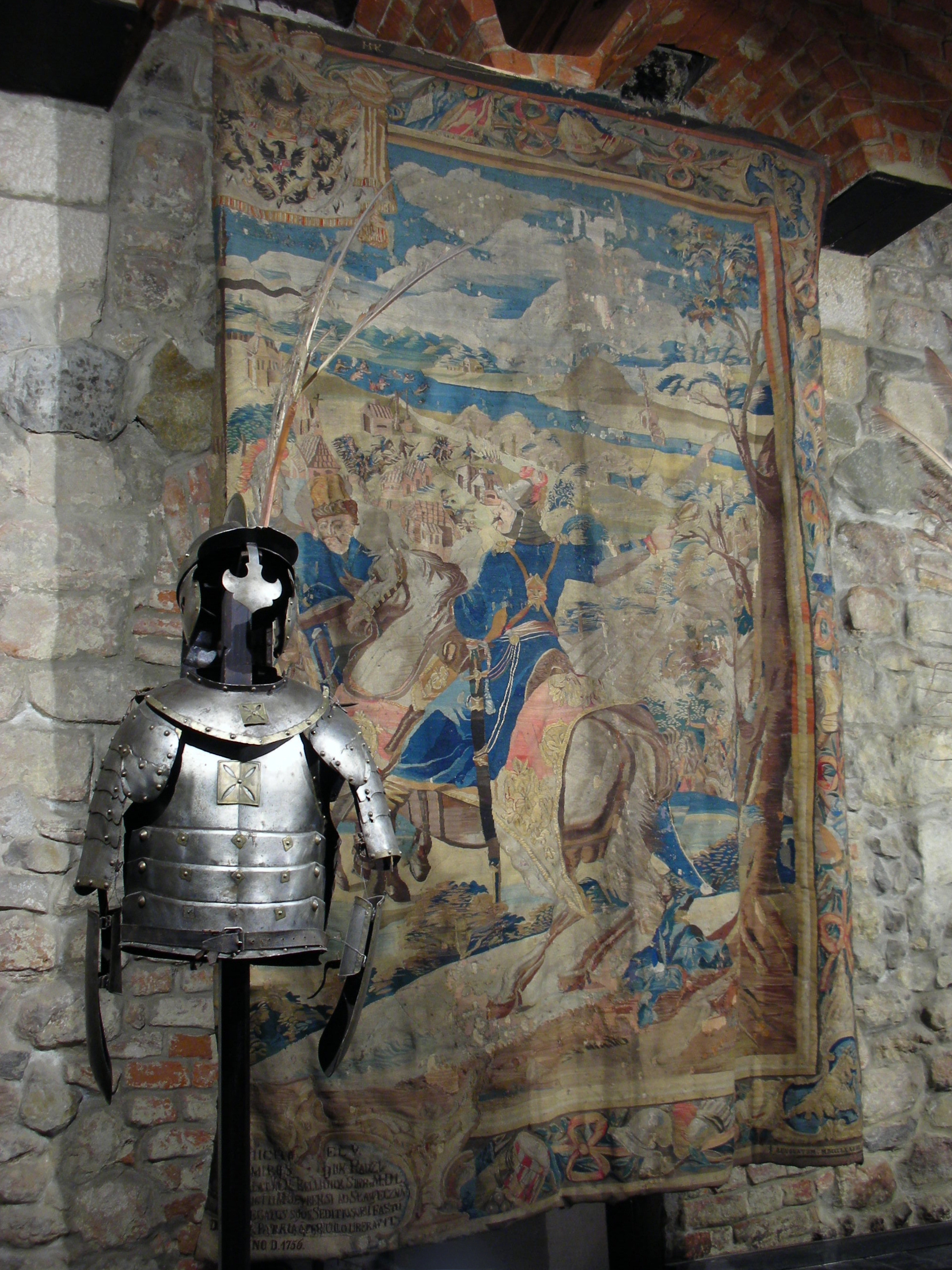 "Arsenal" Museum in Lviv (Ukraine).